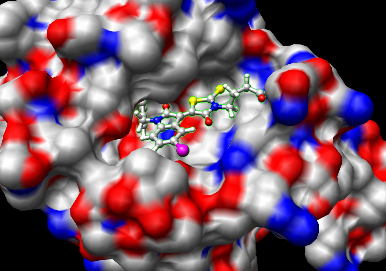 Chemical Compound docked to Protein structure (acetyltransferase) using Gold , molecular surface generated by Chimera software.